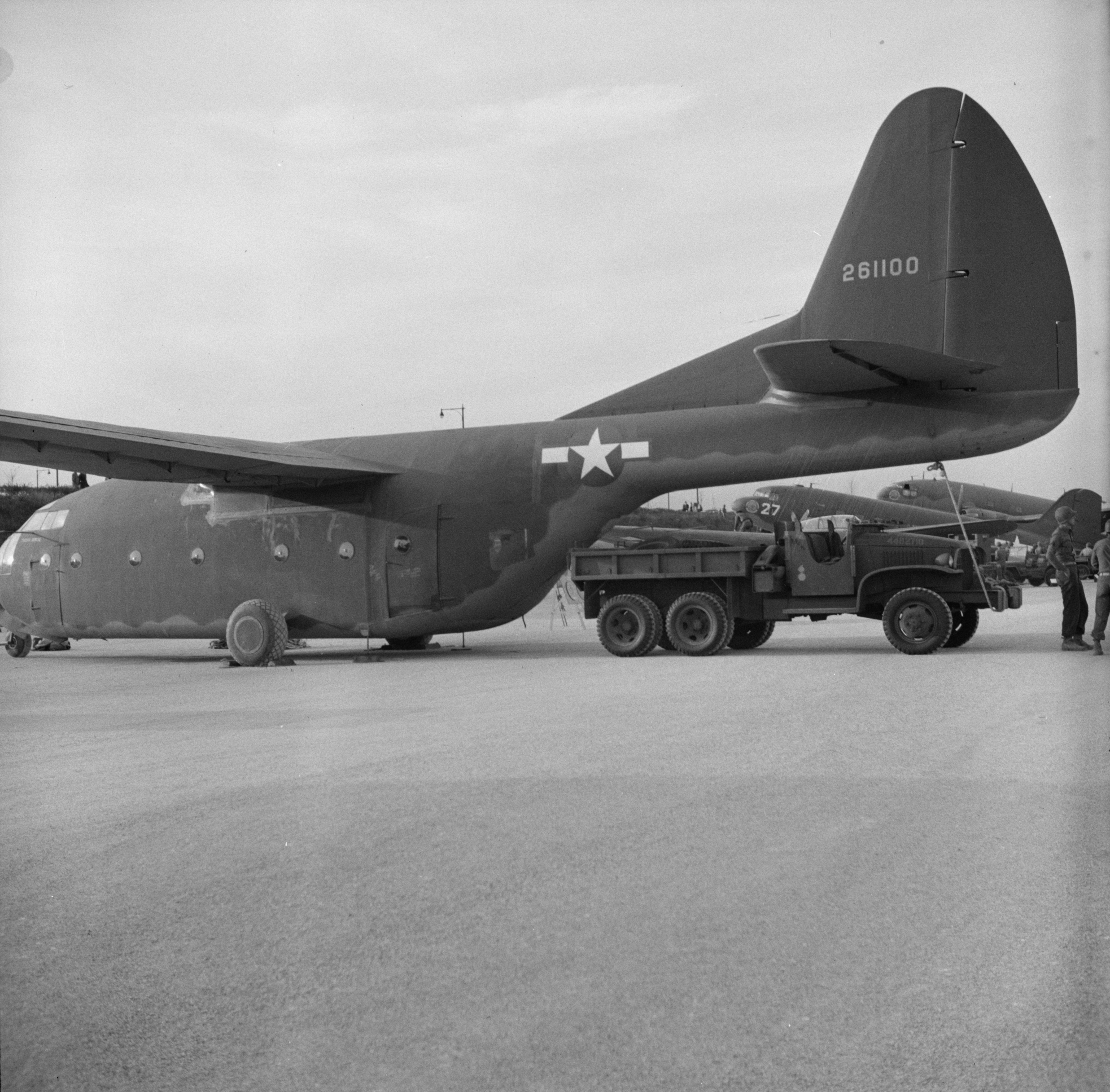 CG-10A. A new design developed to explore the feasibility of carrying very large equiment by glider. This has the largest cargo space of any glider and the largest payload. Note size of truck which has just driven off glider.